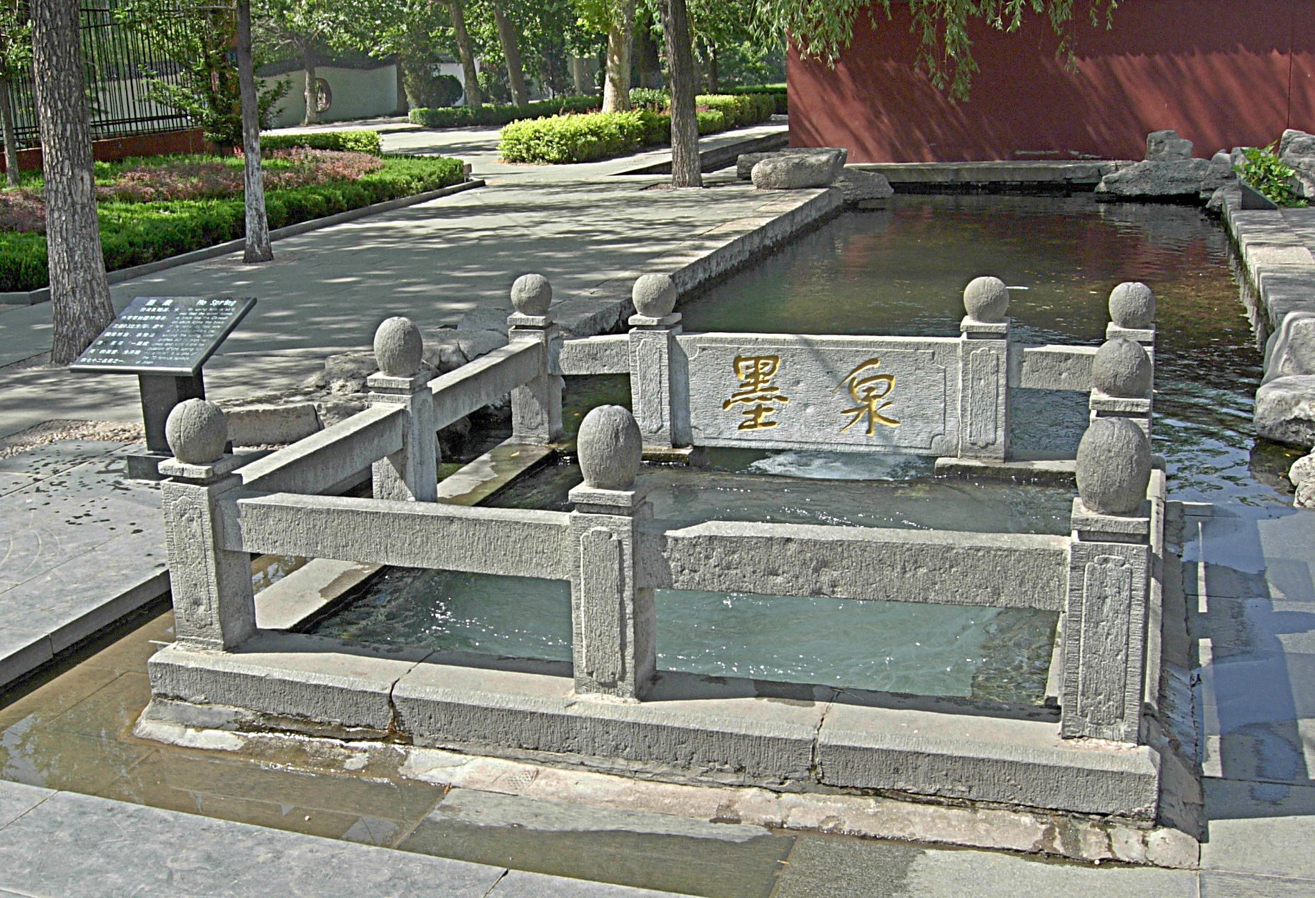 Photograph of Mo Spring in the Baimai Springs Park, in the town of Ming Shui. Located in Zhangqiu County, Shandong Province, eastern China.